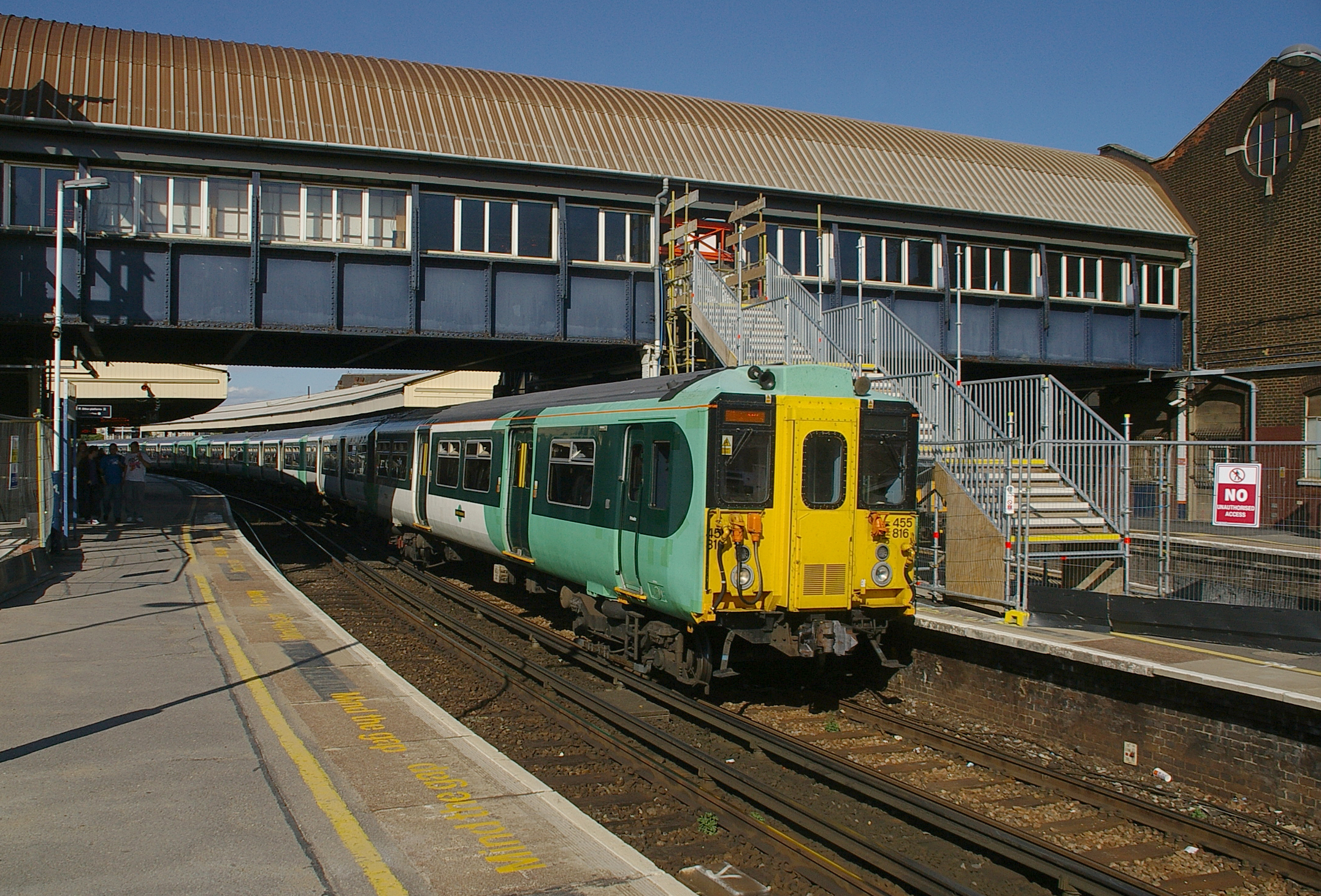 Southern unit 455816 departs Clapham Junction railway station, bound for the south.